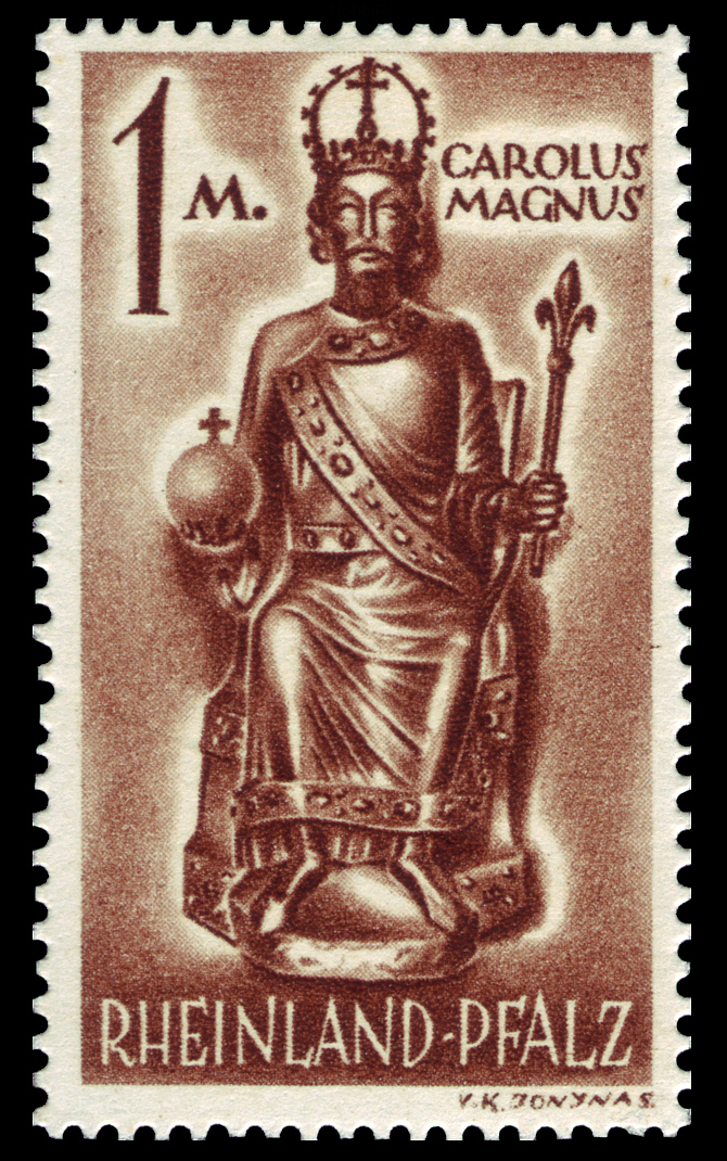 French occupied zone, Rhineland-Palatinate, persons and views of Rhineland-Palatinate (I) Ausgabepreis: 1 Mark First Day of Issue / Erstausgabetag: Juli 1947 Michel-Katalog-Nr: 15 (Französische Besetzungszone, Rheinland-Pfalz)